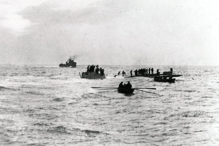 SM U-8 sinking after being scuttled on March 4 1915; ship in BG probably the HMS Gurkha or HMS Maori